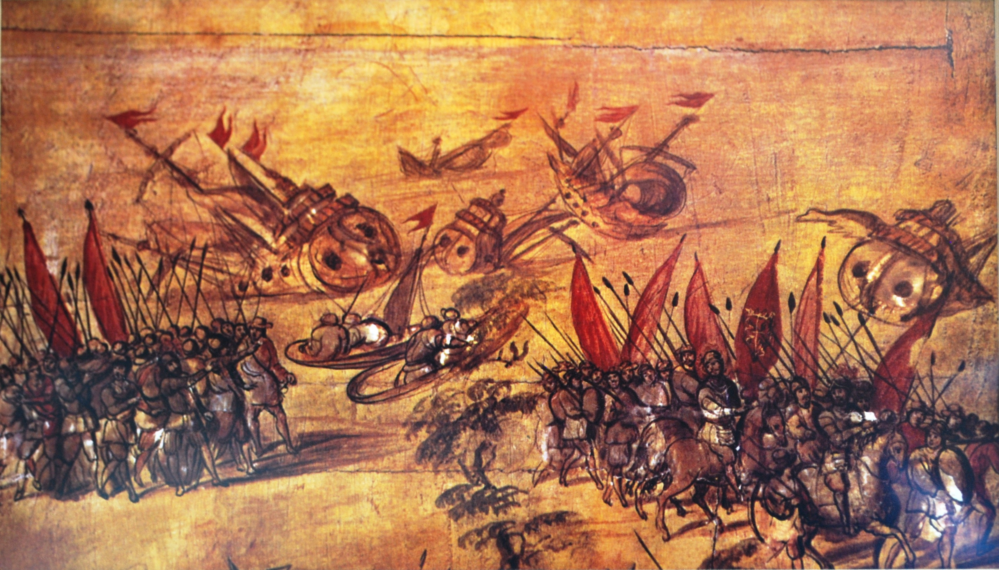 Image attributed to Miguel Gonzalez of Hernan Cortes scuttling his fleet off the Veracruz coast. On display at the Naval History Museum in Mexico City